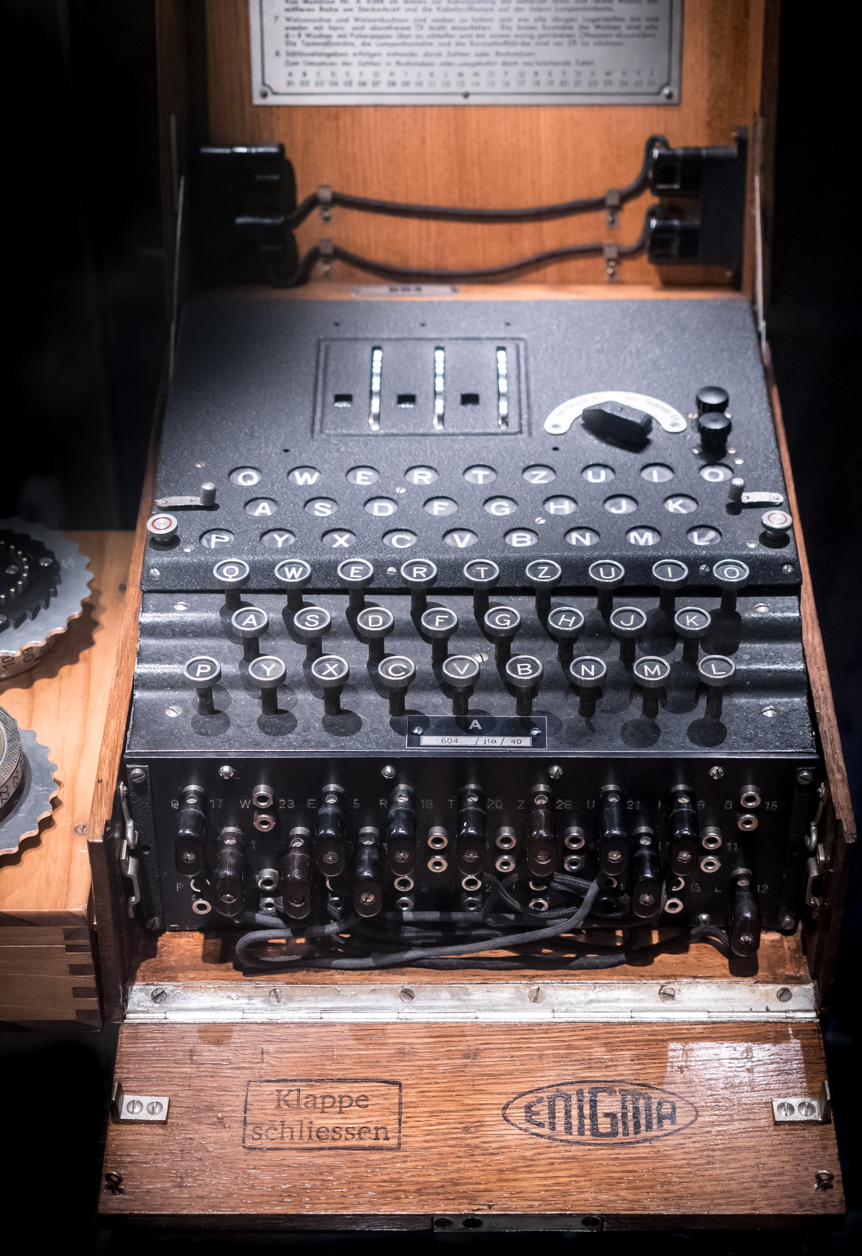 Bletchley Park, Bletchley, Milton Keynes, Buckinghamshire, England.